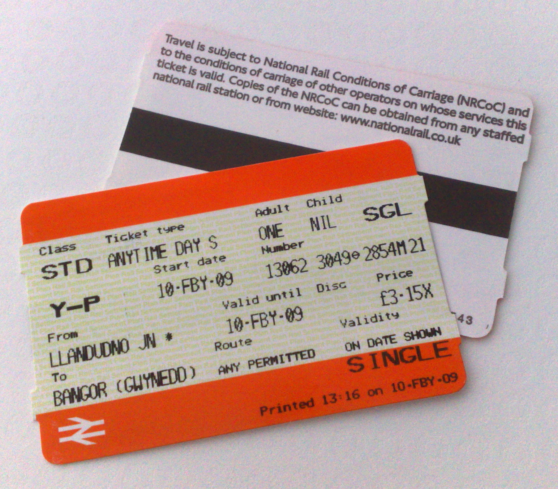 Two National Rail tickets, as issued by an APTIS machine. The first ticket permits a single journey from Llandudno Junction to Bangor (with a Young Person's Railcard). The reverse of the second ticket shows that tickets are issued in accordance with the National Rail Conditions of Carriage.